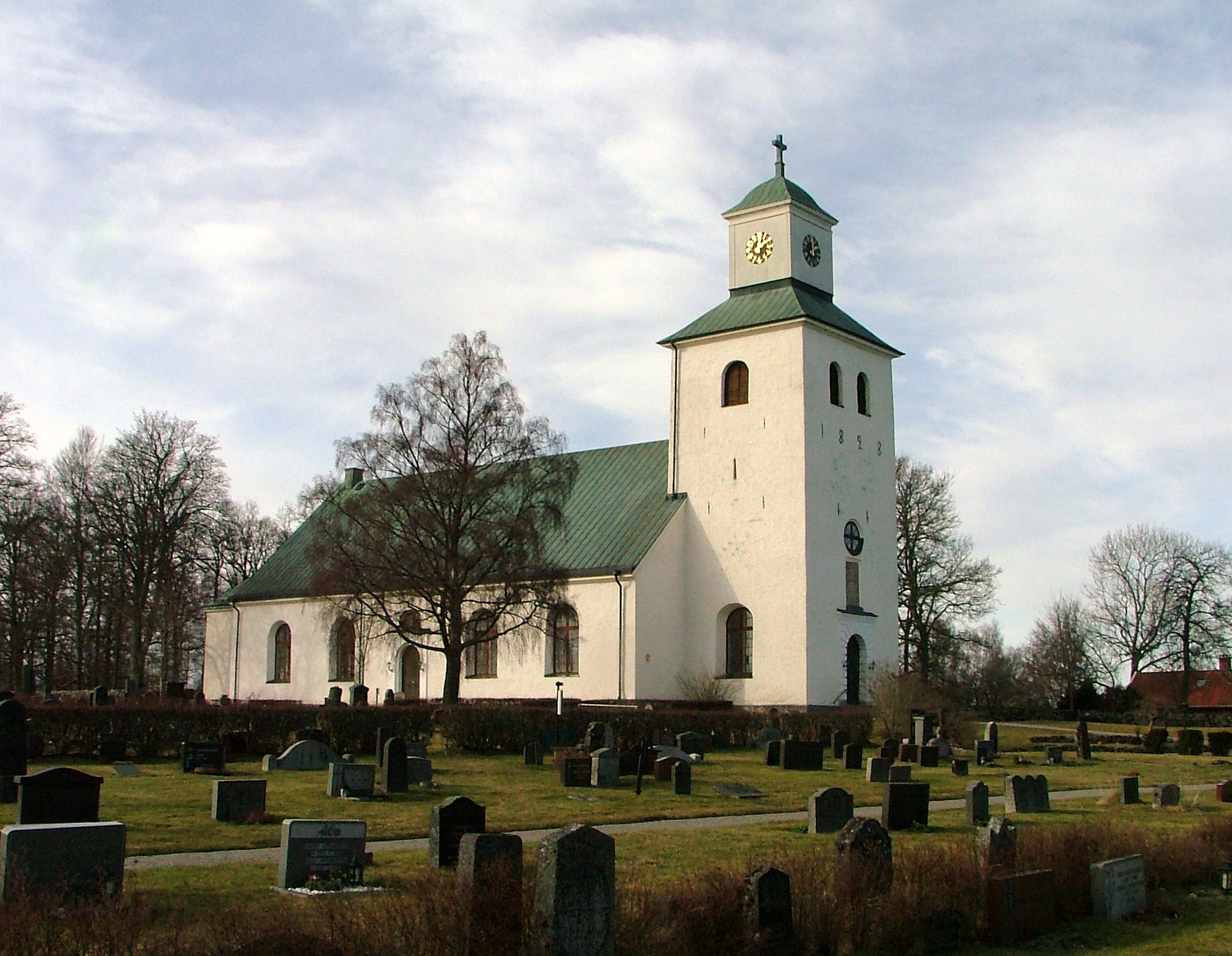 On August 6, 1827, the foundation stone was laid to the new church of Crown Prince Oscar who took a break in Väckelsång on his journey to Karlskrona. The neoclassicist church consists of rectangular long houses with a straightforward choir wall and an underlying sacristia. The main entrance is located in the ground floor of the tower. The entrance was sealed by Domprosten Isac Heurlin on June 11, 1832.